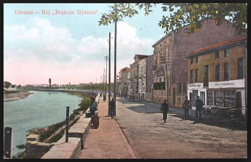 Madžir Maalo, Skopje, Macedonia